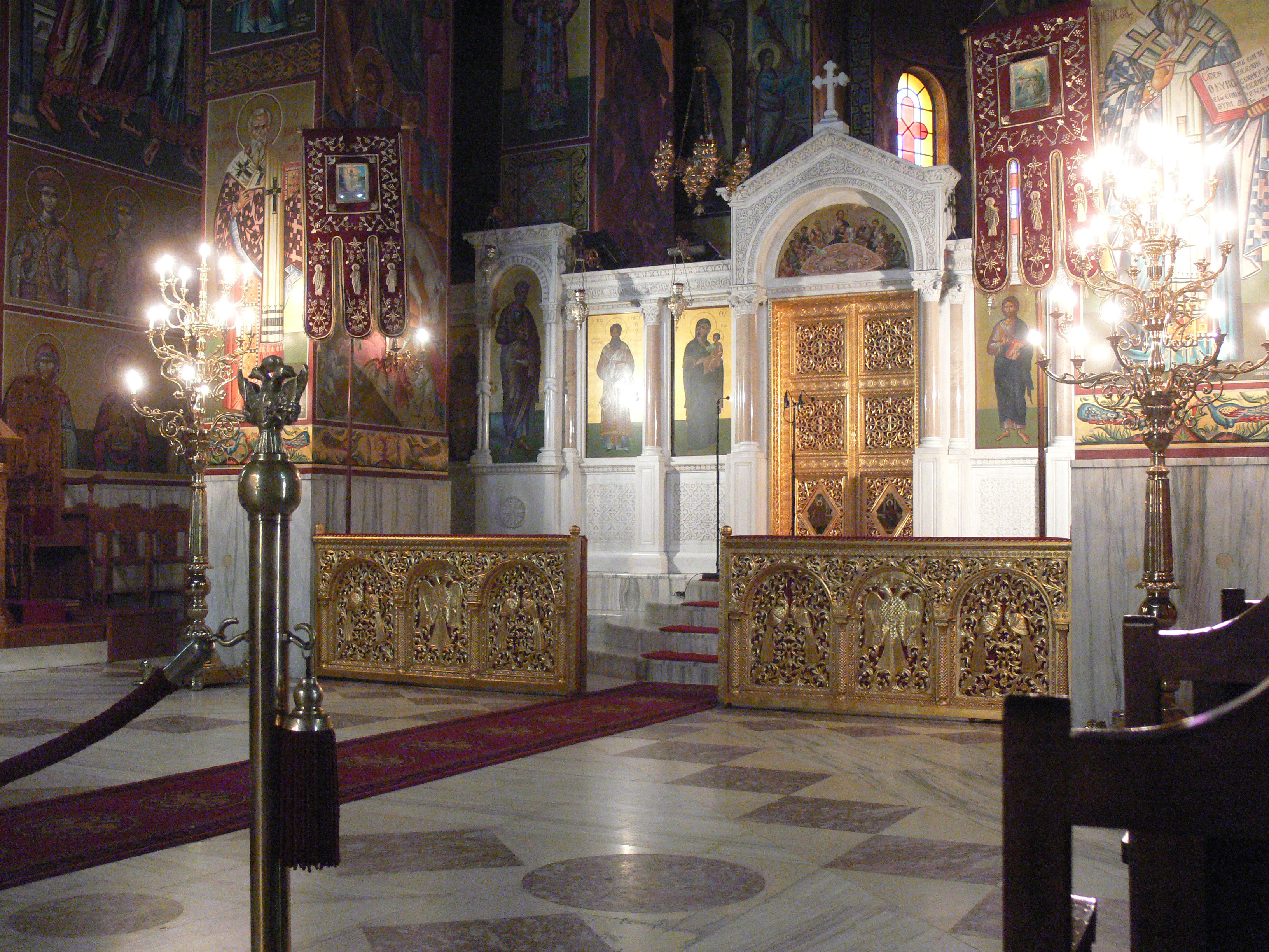 The Church of Saint Gregory Palamas, Metropolitan Church of the Orthodox. Ikonostas.